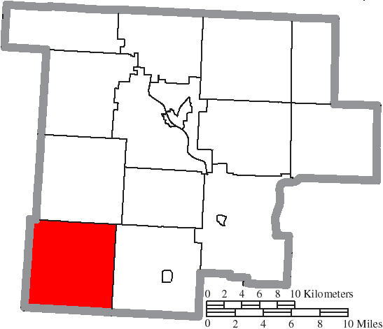 Map of the municipal and township boundaries of Morgan County, Ohio, United States, as of the 2000 census, with the location of Homer Township highlighted. Township borders are shown only in unincorporated areas in order to differentiate incorporated and unincorporated areas more clearly.